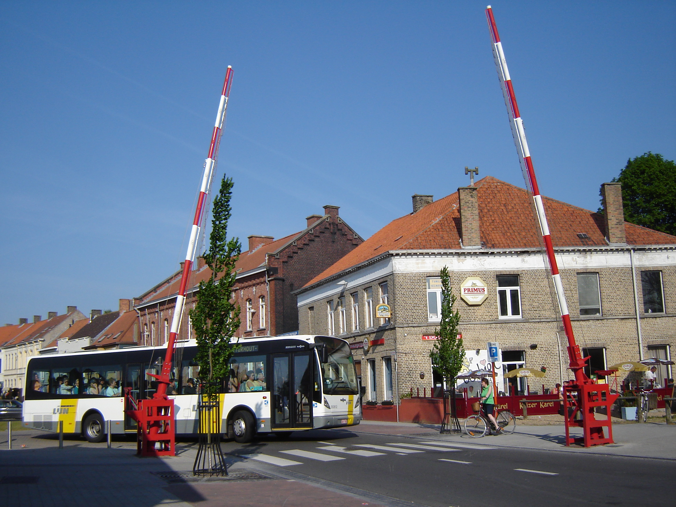 Crossing of cycleway Groene 62 with the street Nieuwpoortse Steenweg. The cycleway Groene 62 is a former railway, hence the old barriers. Gistel, West Flanders, Belgium